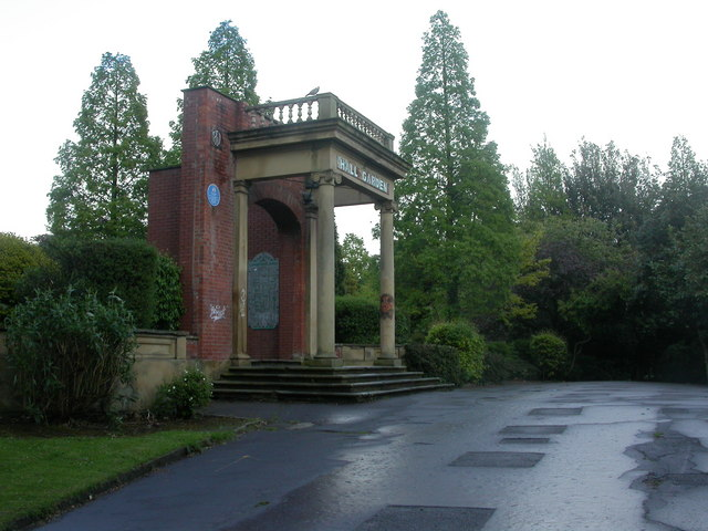 Longford Park, arch Once the entrance to Longford Hall, residence of "Cotton King" John Rylands. All that remains of the hall are this arch, once the main entrance, and some foundations, in the gardens to the left out of sight.